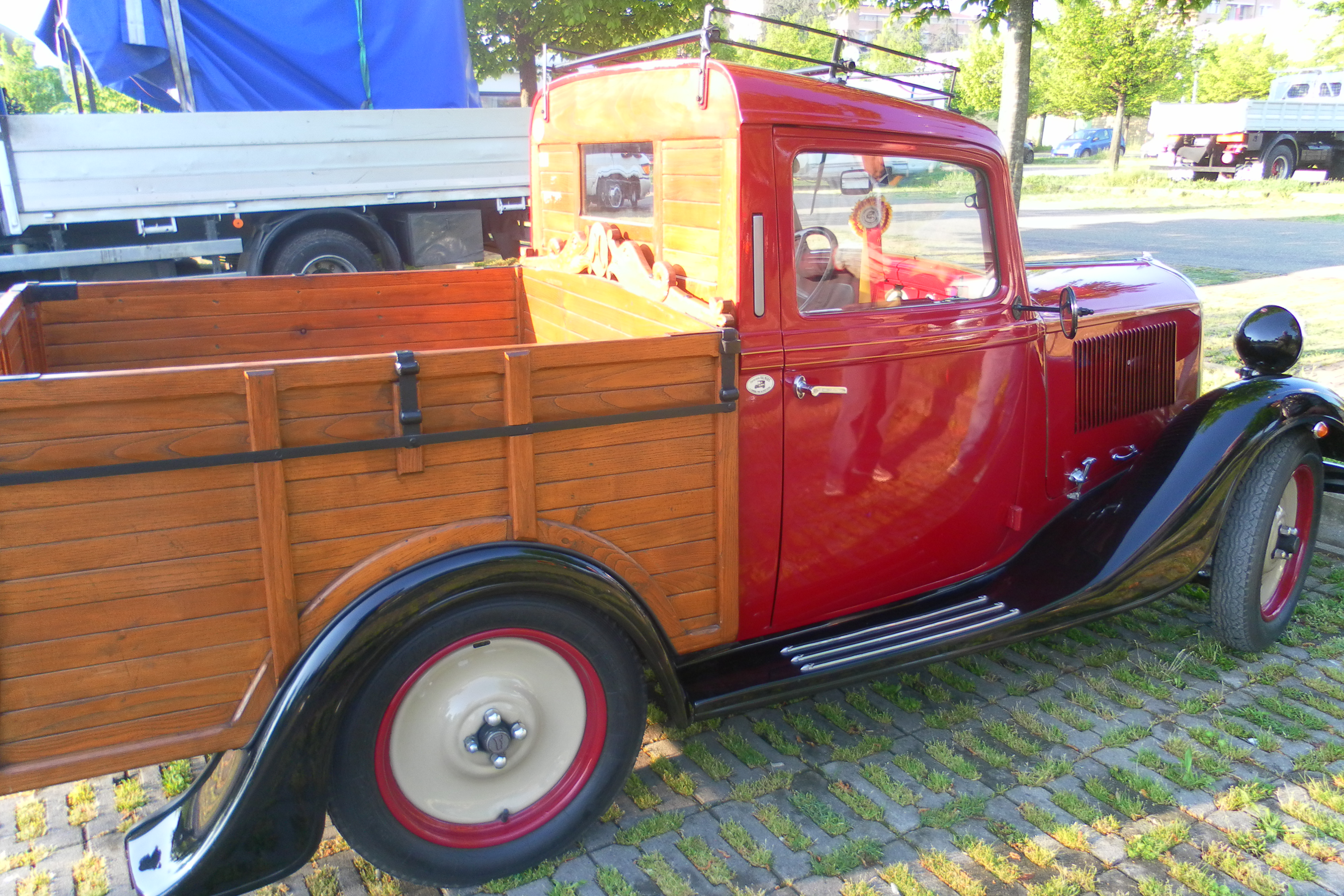 Fiat 508 Balilla